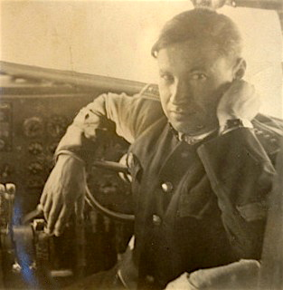 My grandfather is the pilot of LI-2